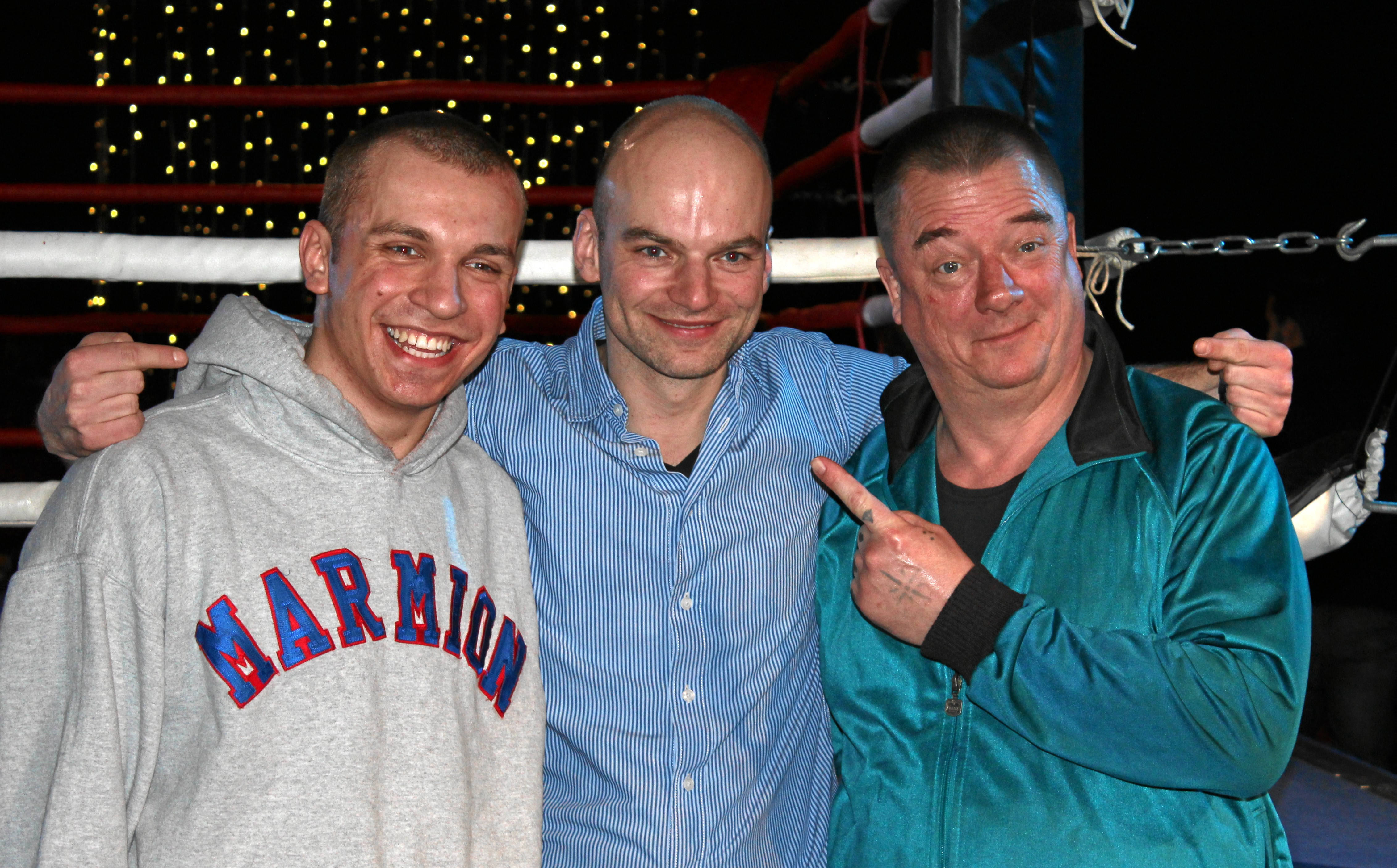 Edin Hasanovic, Thomas Stuber and Peter Kurth on the set of the feature film Herbert in 2014.